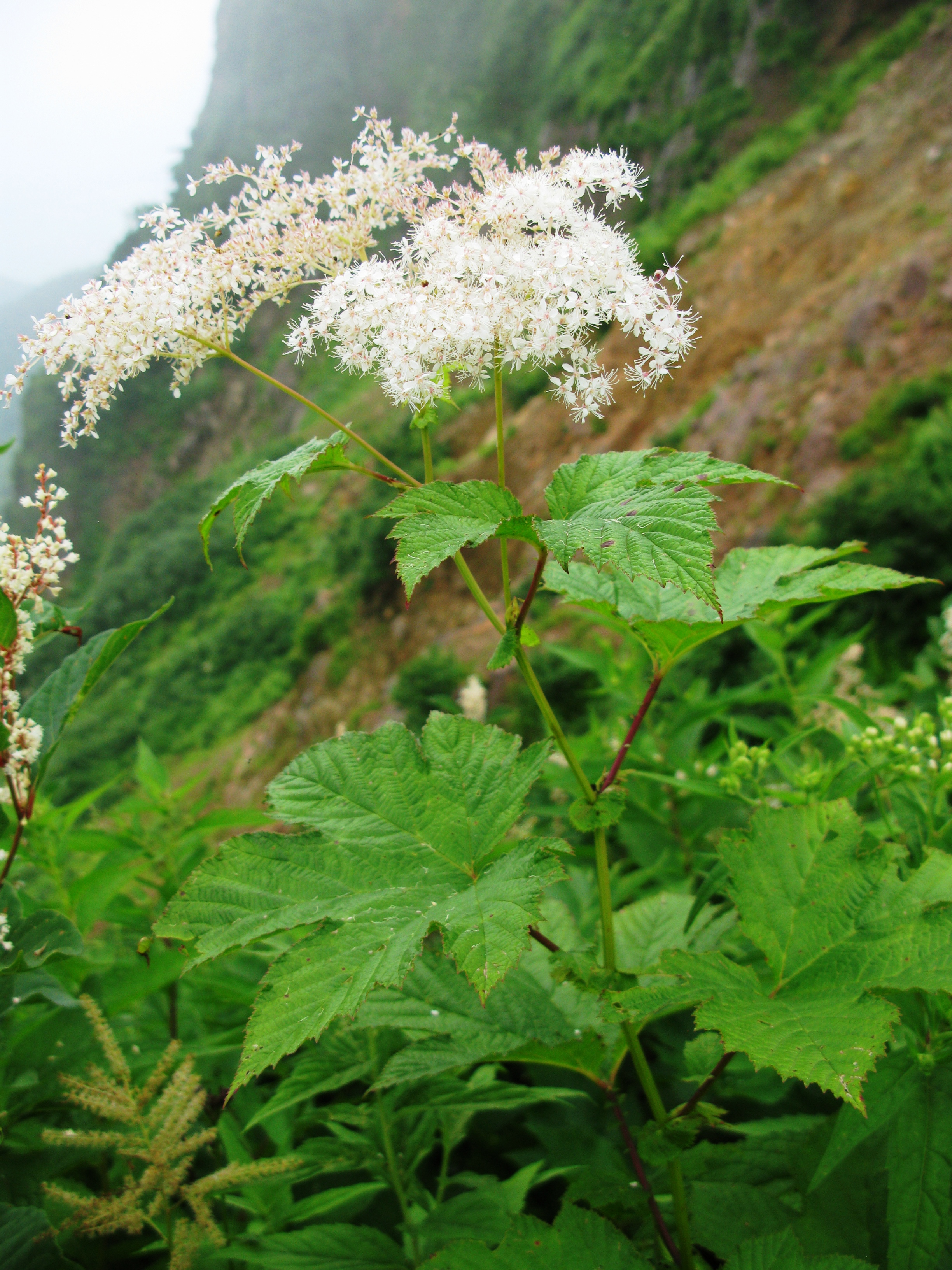 Filipendula camtschatica, Mt. Bandai, Fukushima pref., Japan